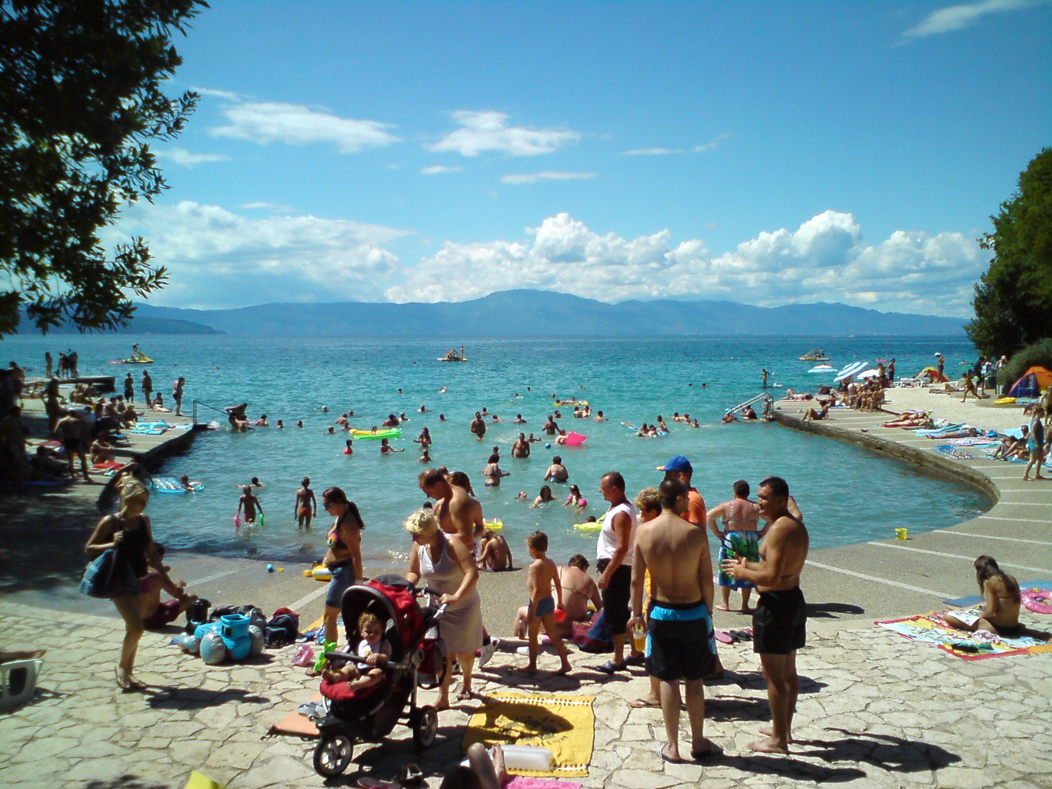 Beach Haludovo. View toward the northwest. Malinska, Island Krk, Croatia.